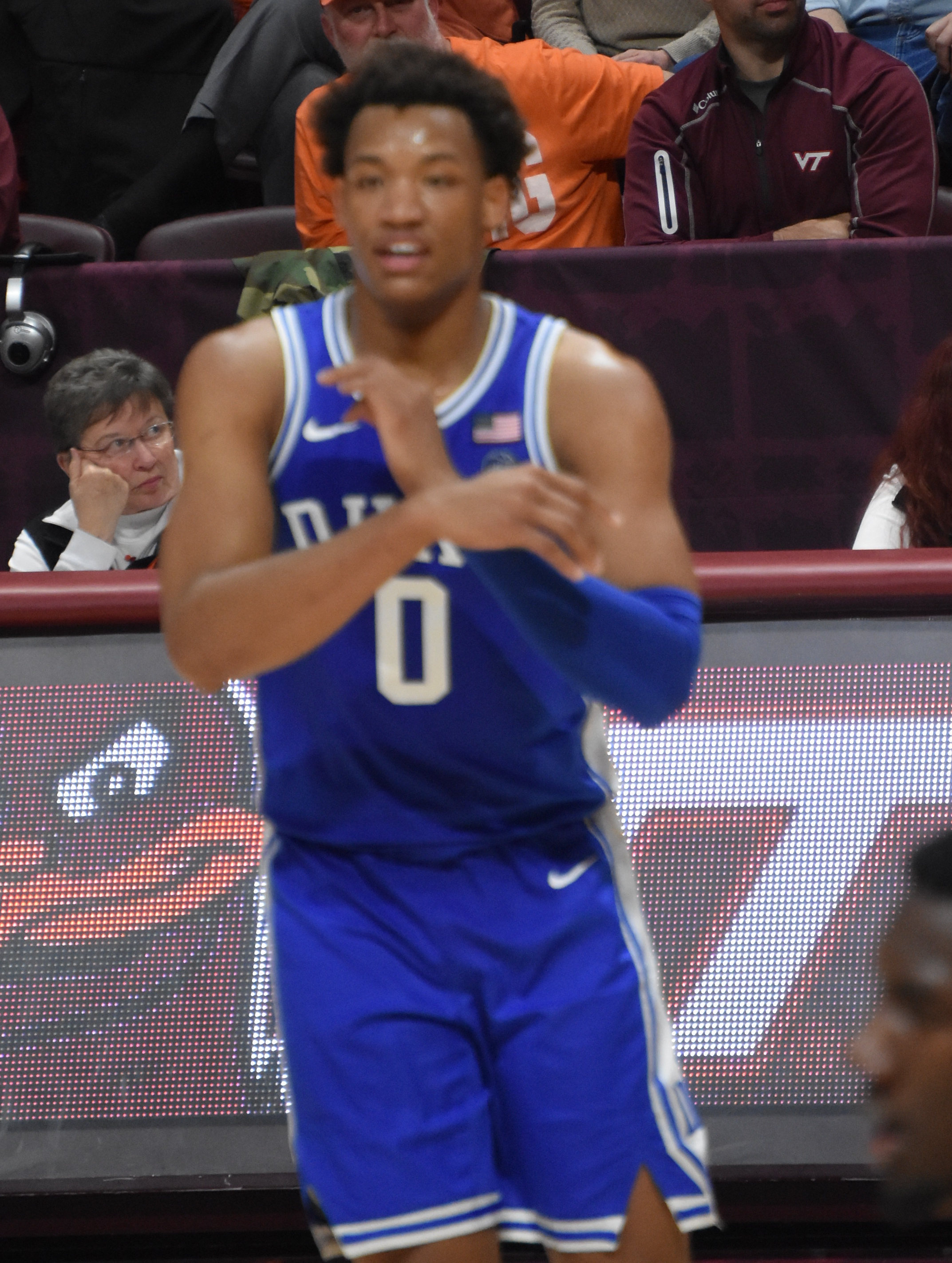 Wendell Moore on the Floor for the Blue Devils at Cassell Coliesum